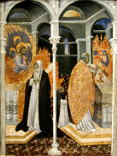 Saint Catherine of Siena Receiving Holy Communion from the Hand of Christ // Metropolitan Museum of Art